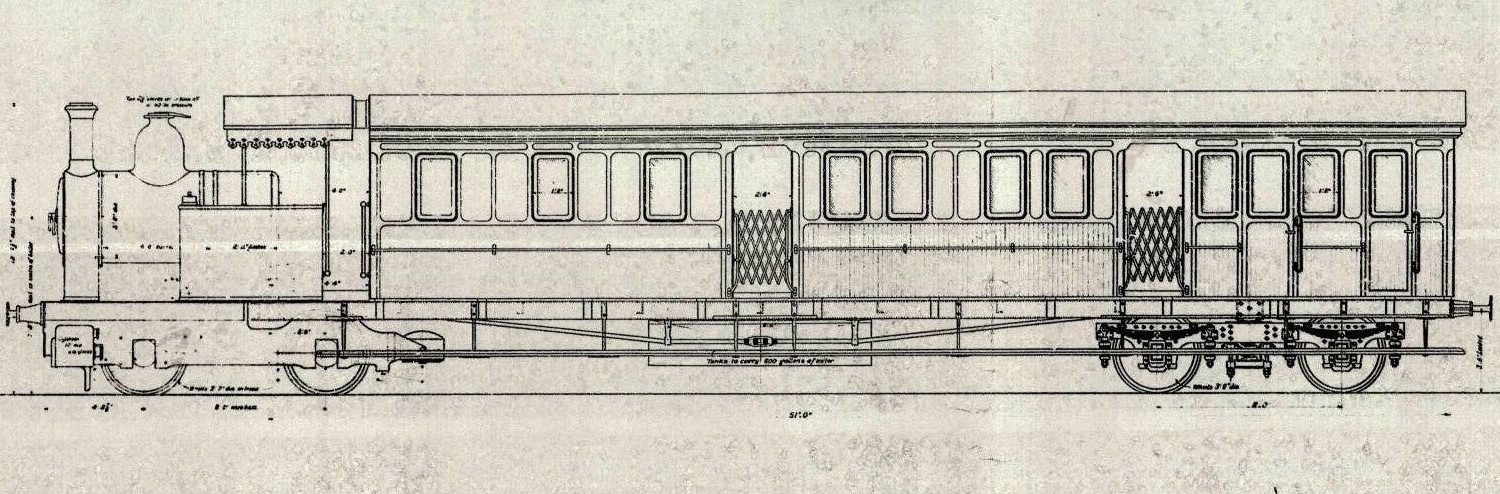 Cape Government Railways Railmotor no. M6 - Detail from Drawing no. 12640 of The Metropolitan Amalgamated Railway Carriage & Wagon Co. Limited